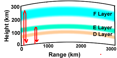 Diagram showing what happens to vertically-propagating EM waves (indicated by red raytraces) that are at a lower frequency than the critical frequencies. The left raytrace is at a higher frequency than the E layer critical frequency, foE, but lower than F layer critical frequency. The right ray is lower than foE. Vertically-propagating waves at higher frequencies than foF2 will not be reflected and will go into space.